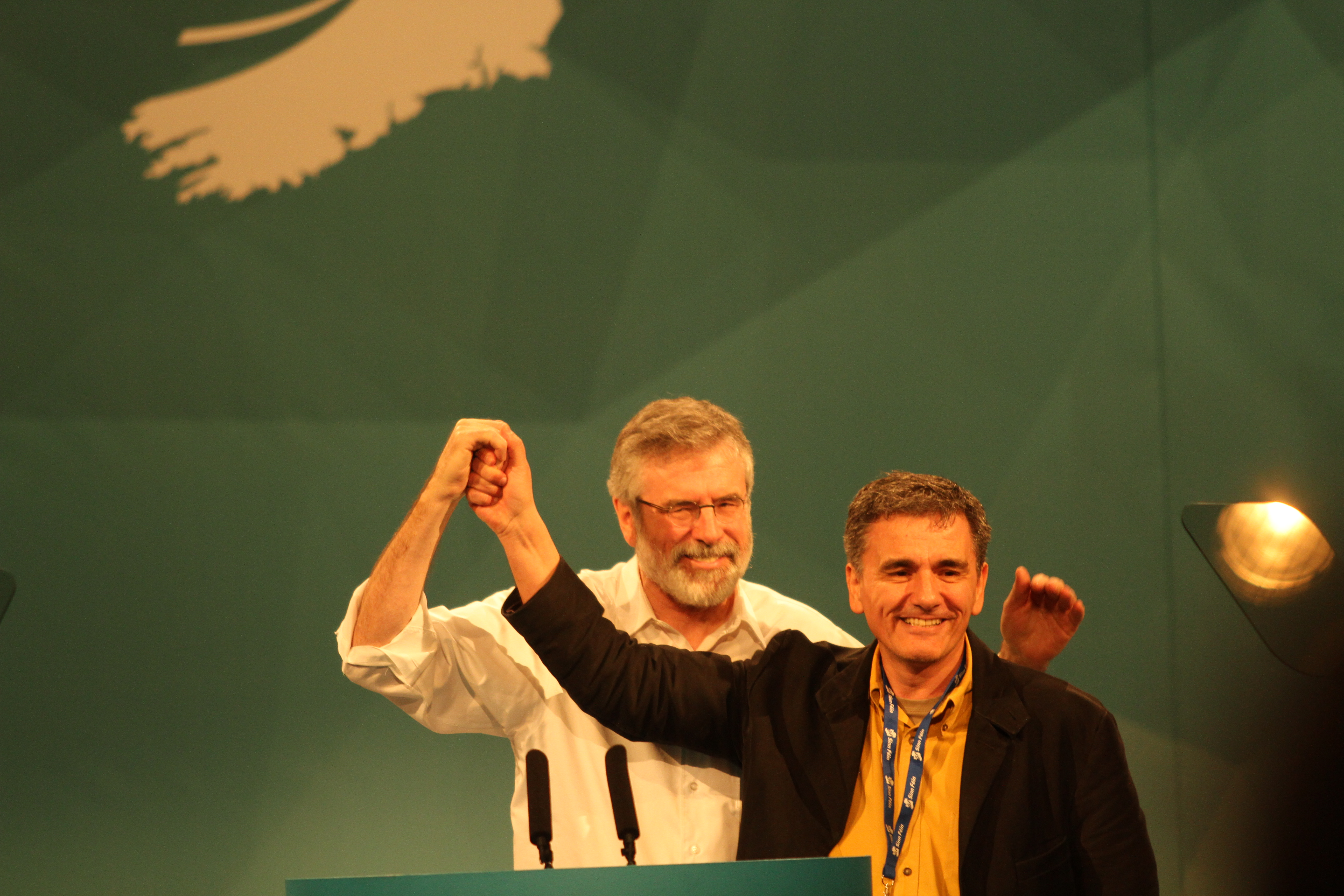 Euclid Tsakalotos with Gerry Adams at the Sinn Fein ardfheis